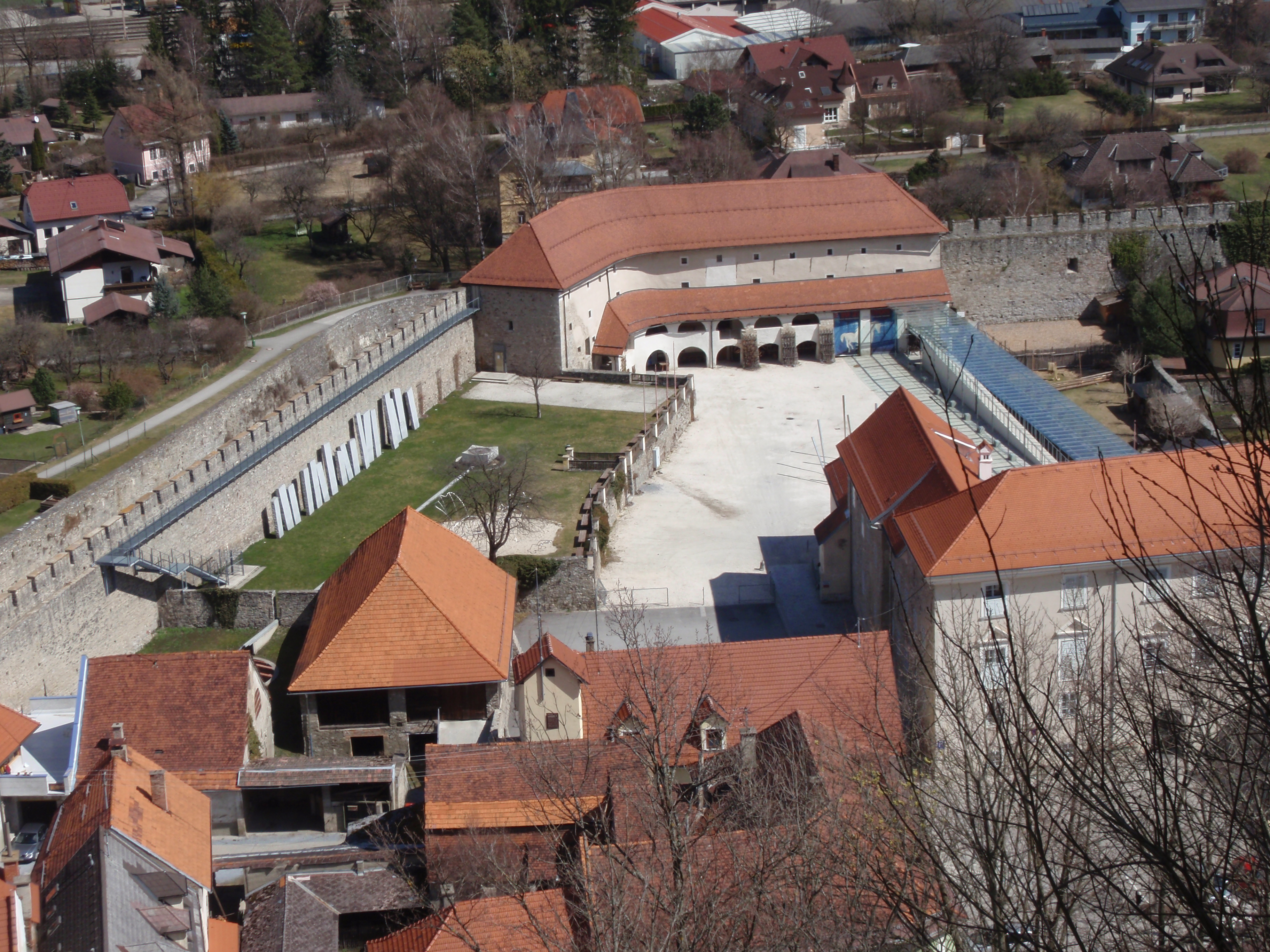 Seat of Archbishops of Salzburg in Friesach, in the years of 860-1804, Carinthia, Austria